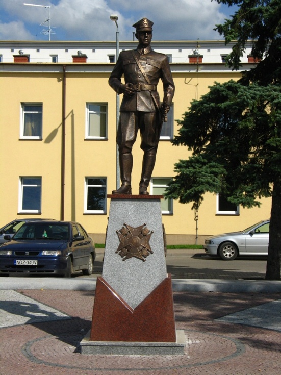 Memorial of Polish Officer in Zambrów, Poland. Made by artist Michał Selerowski